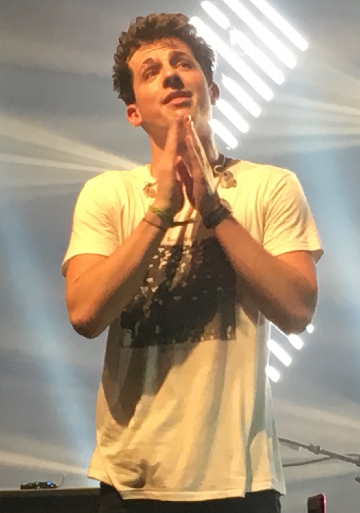 Charlie Puth performing at the Regency Ballroom in San Francisco as part of his Nine Track Mind Tour in March 2016